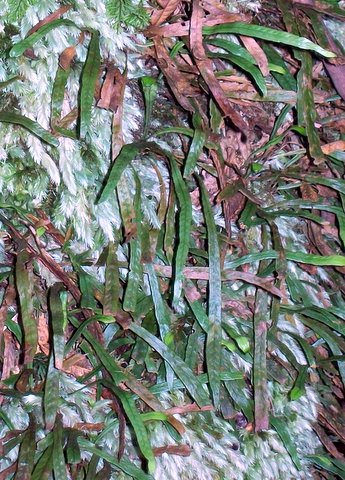 Finger Fern, Grammitis billardierei - at the rainforest south of the summit of Mount Imlay, NSW, Australia